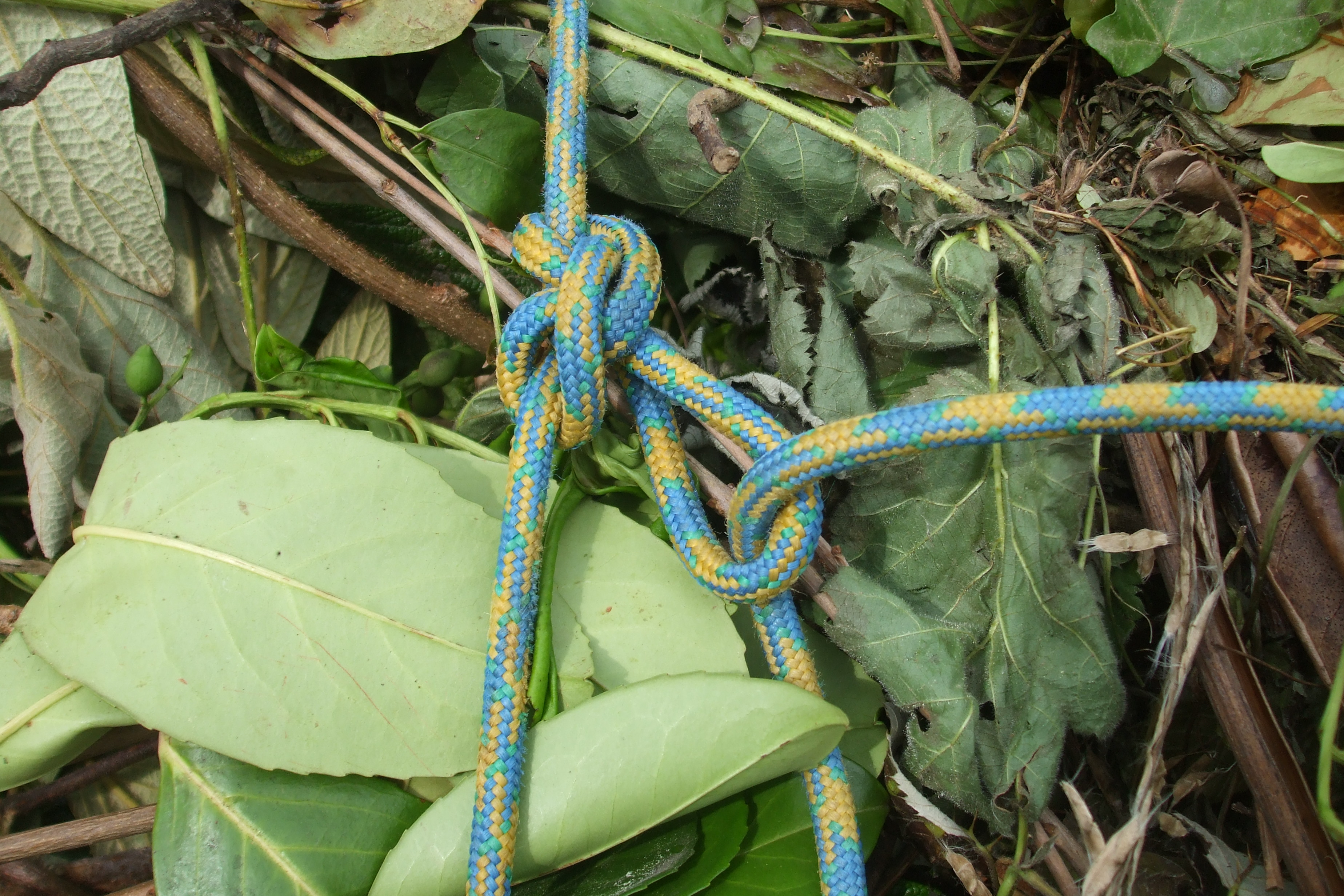 Alpinbutterfly-knot & Truckers hitch